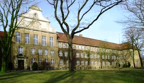 Martin-Luther-Gymnasium (grammar school) Eisleben